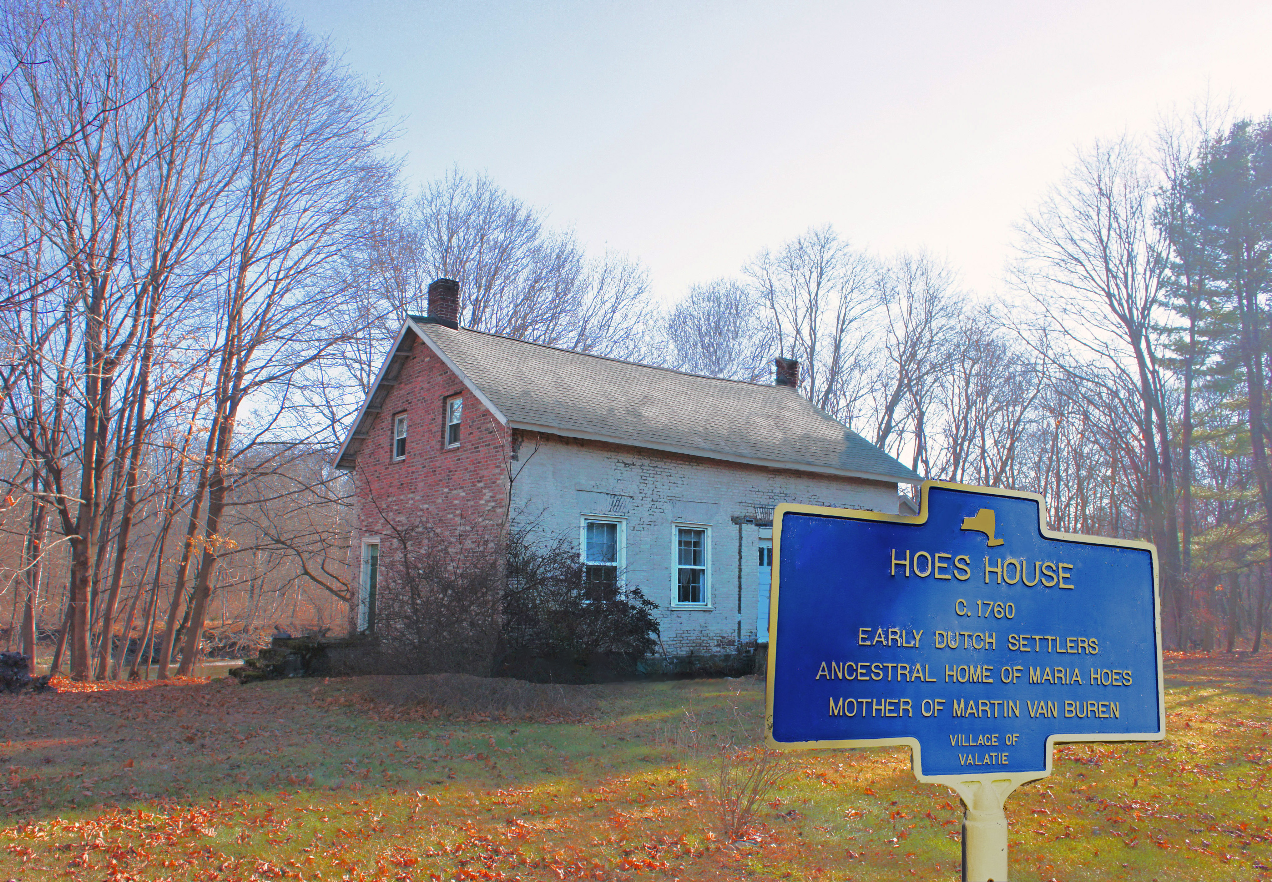 New York State / Federal History / Dutch NY Architecture - Maternal Ancestral Home c1760 of President Martin Van Buren, Valatie, NY. Historical Marker for the 18th century ancestral home of 8th president of the USA, President Martin Van Buren's Mother, Maria Hoes. Located in the Village of Valatie, Kinderhook, New York 12184